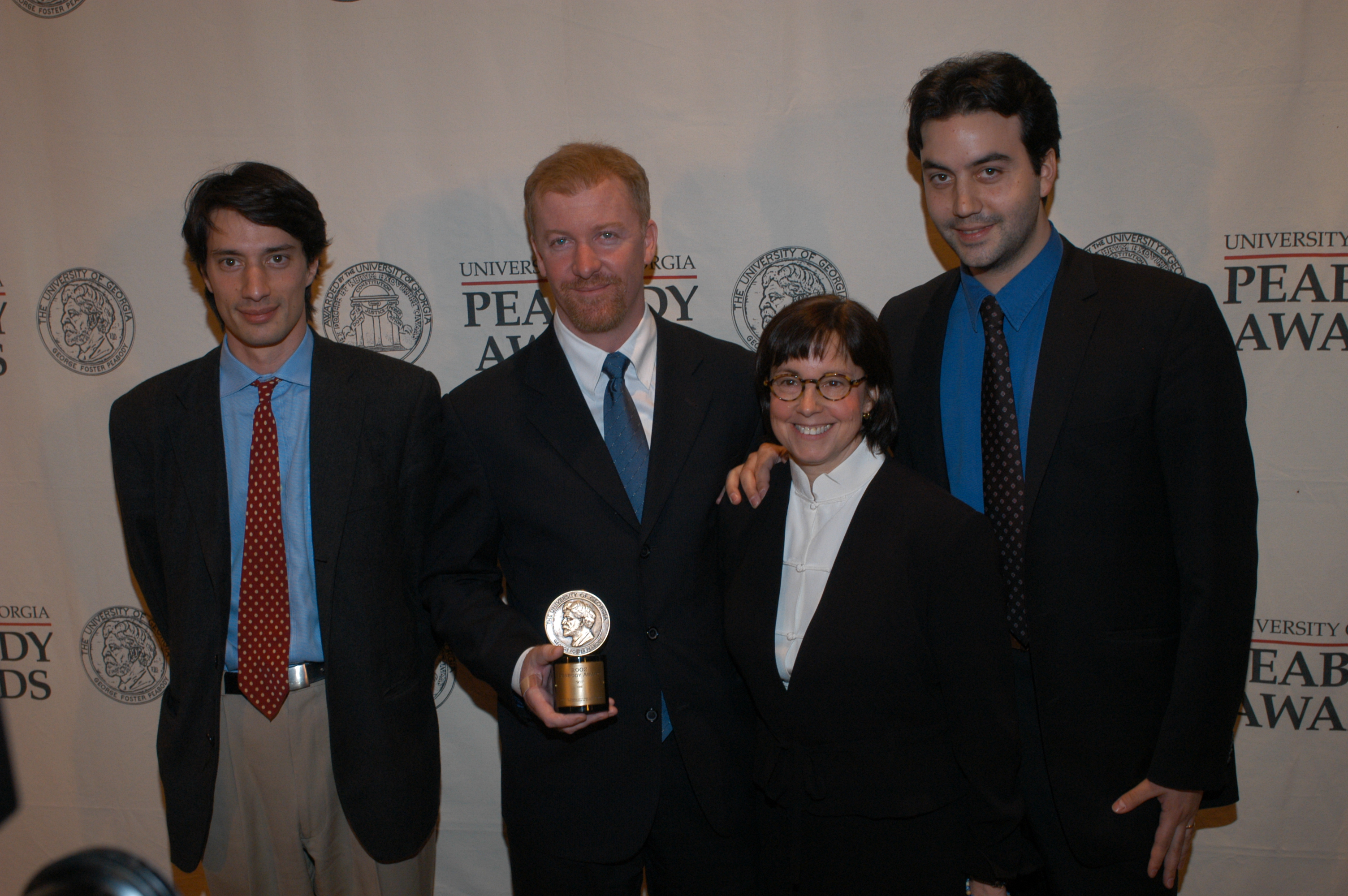 PHOTO CREDIT: ANDERS KRUSBERG / PEABODY AWARDS Gédéon Naudet, James Hanlon, Susan Zirinsky and Jules Naudet at 62nd Annual Peabody Awards Luncheon Waldorf=Astoria Hotel May 19, 2003